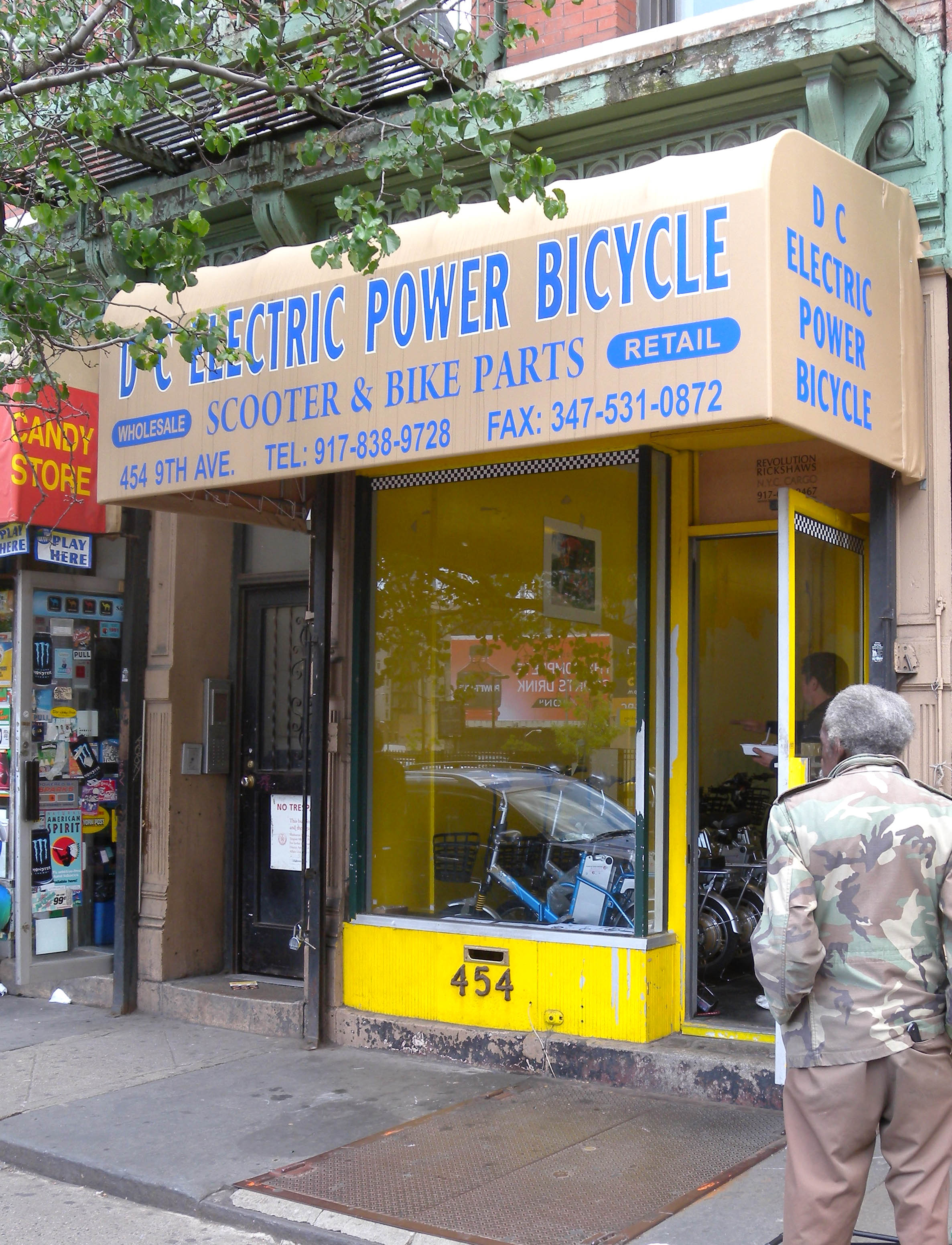 Looking east at an electric bike shop on 9th Avenue on a mostly sunny early afternoon.